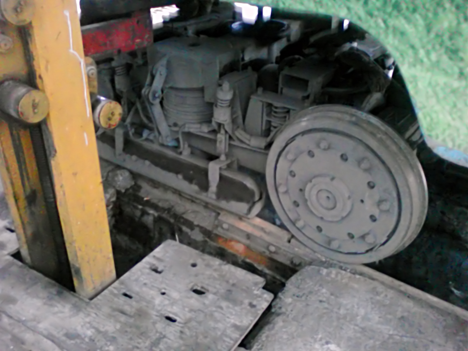 Bogie tramcar KTM-5